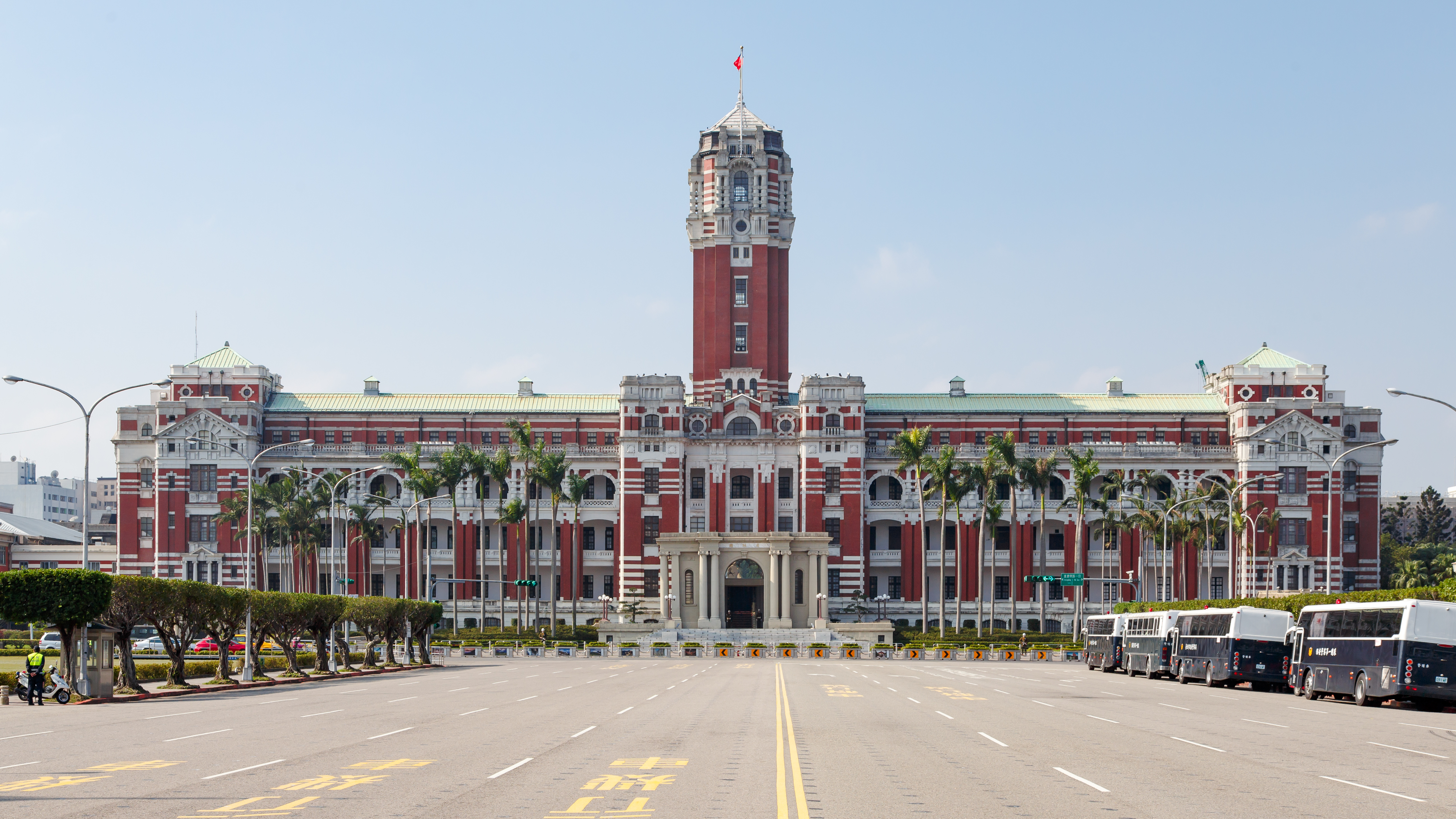 Taipei, Taiwan: Presidential Office Building